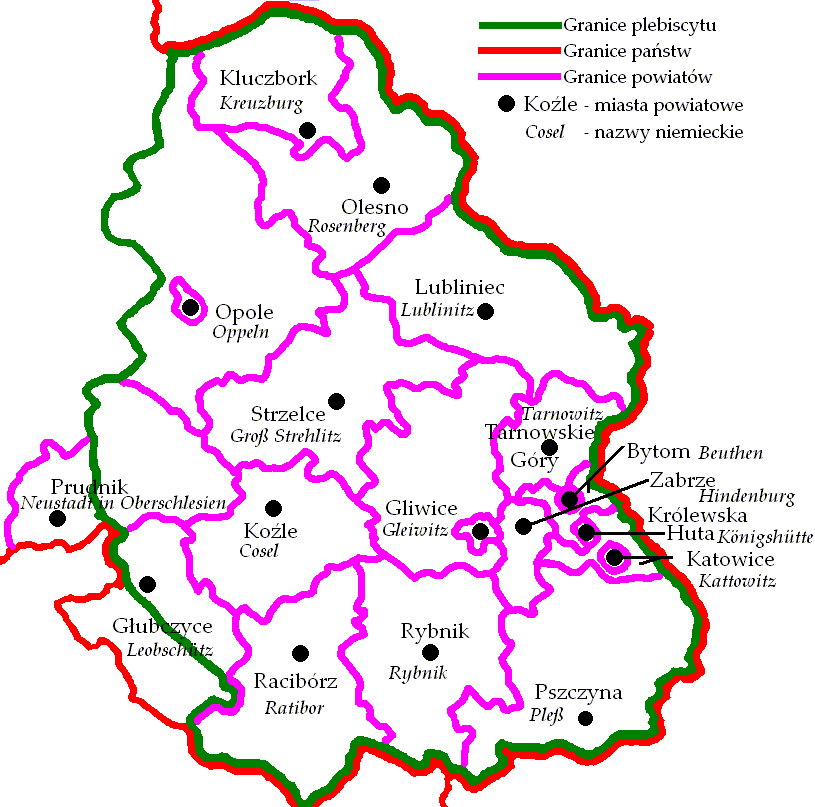 The territory of the Upper Silesian plebiscite of 1921, administrative division. Legend: green lines - plebiscite borders; red line - country borders; pink line - powiat (county) borders